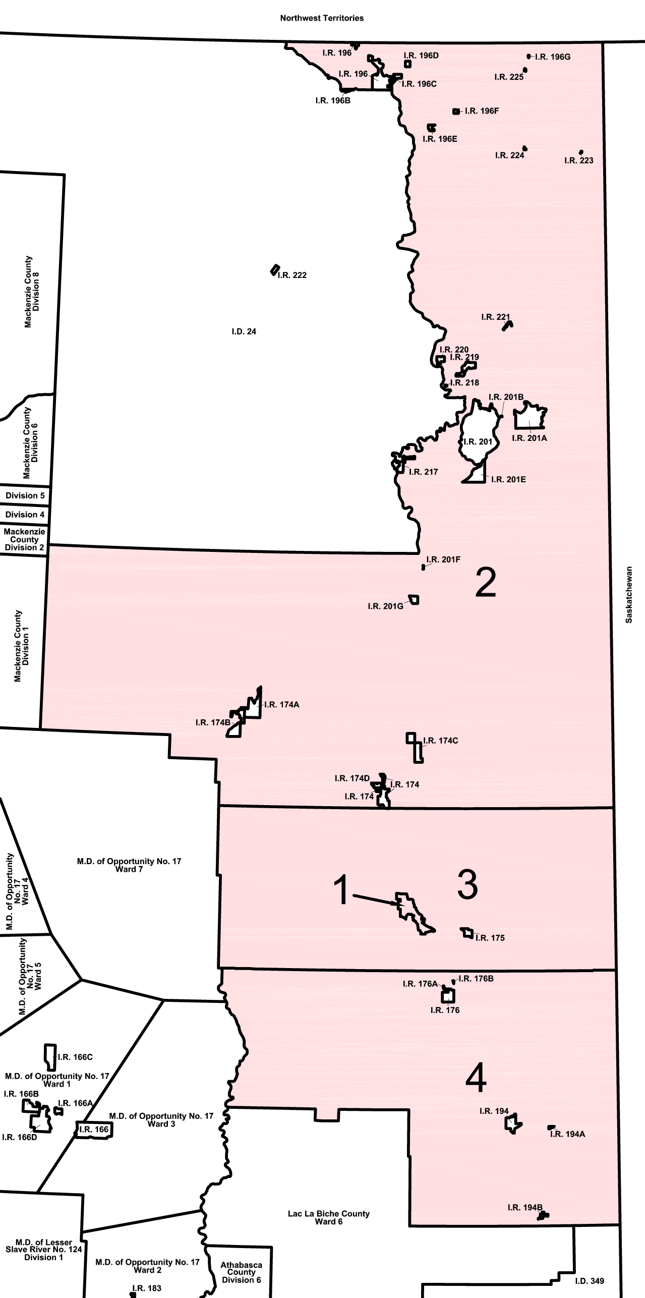 Municipal electoral wards in and around the Regional Municipality of Wood Buffalo in 2013.